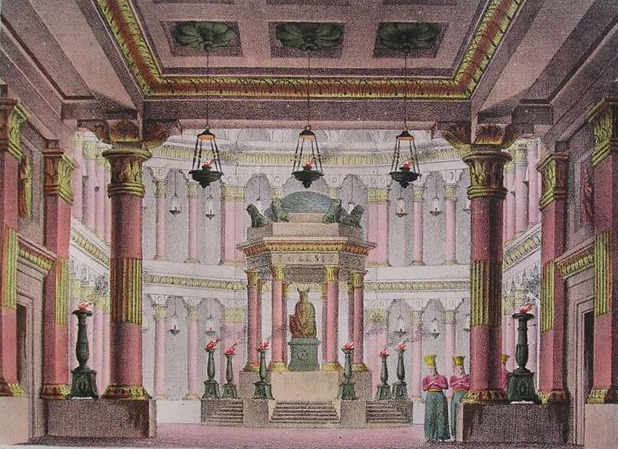 Gioachino Rossini - Semiramide - Alessandro Sanquirico - Milan 1824 - act 1, scene 1 - Interno del tempio di Belo